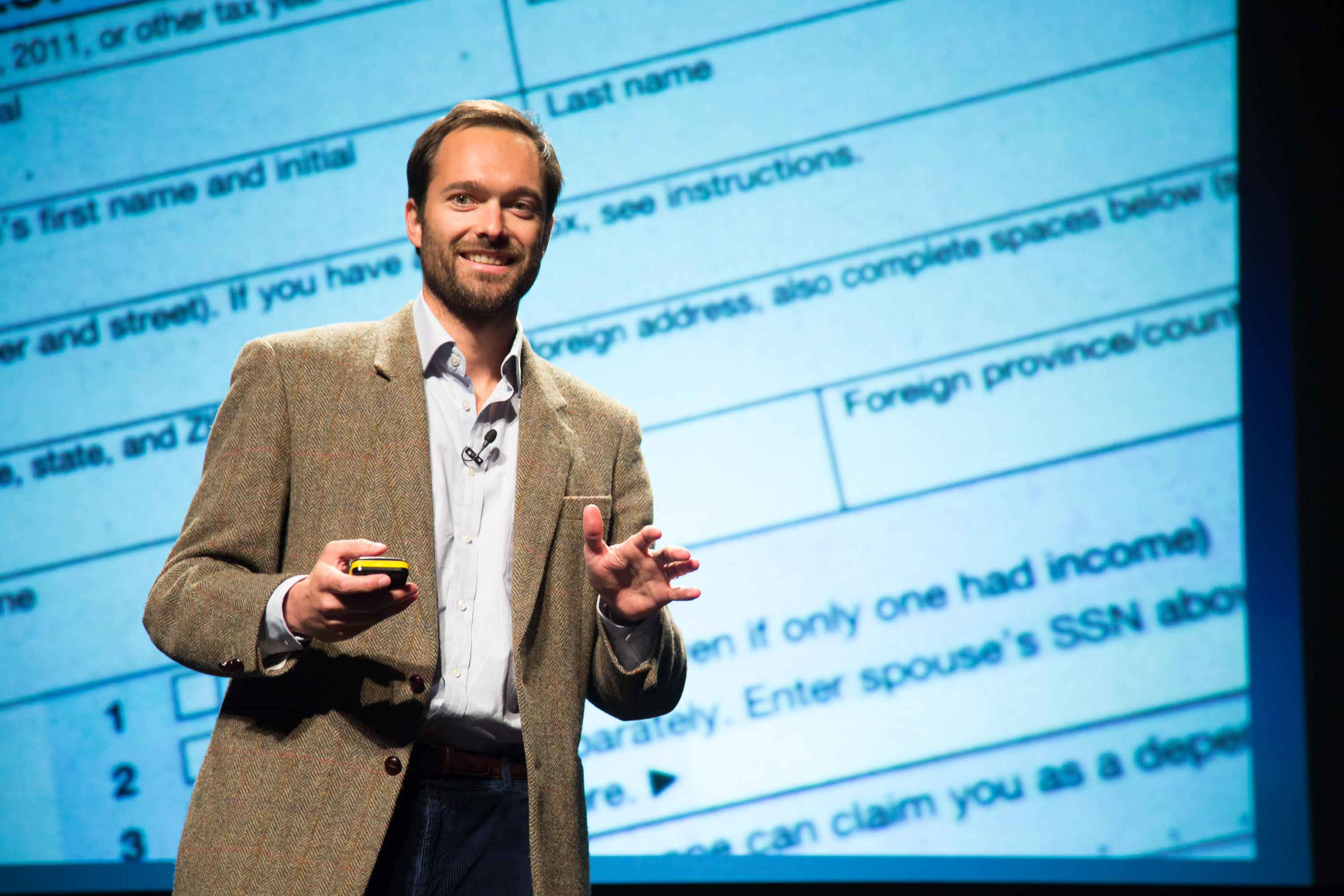 Picture taken of Professor Jan-Emmanuel De Neve at PopTech 2013